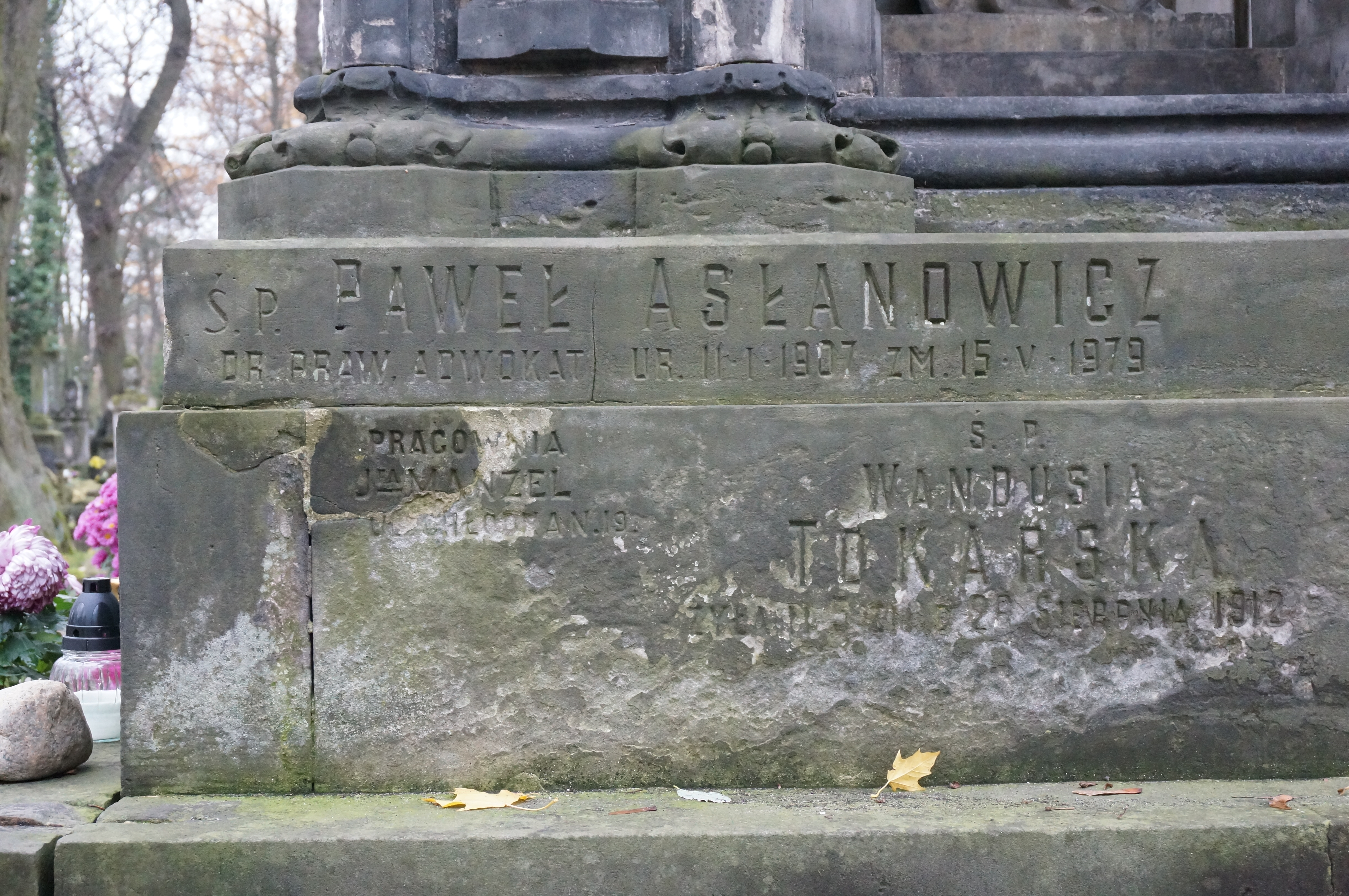 Inscription on the grave of Paweł Asłanowicz (section 181, row 5, grave 30-31)